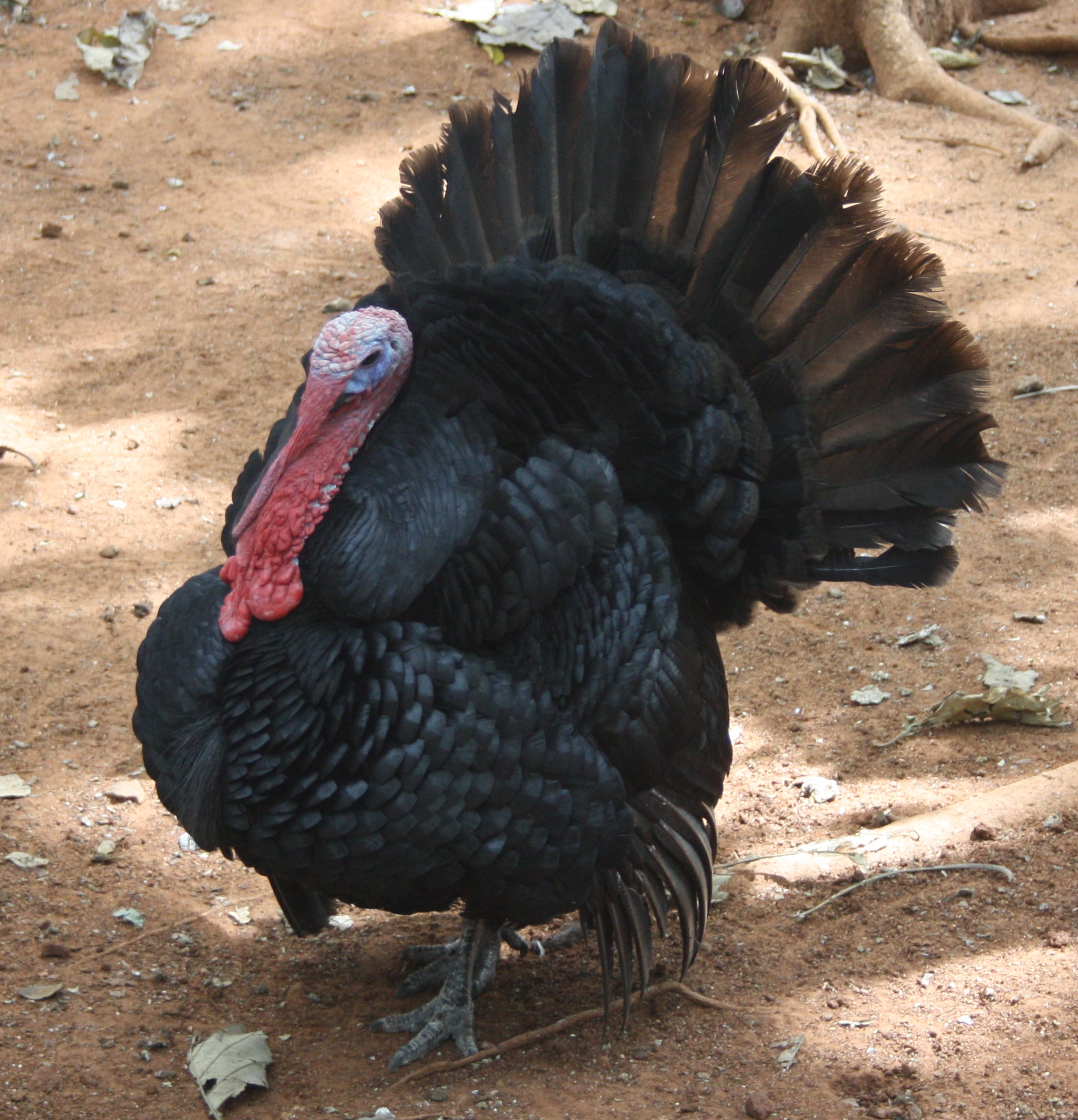 Male Wild Turkey grown at the Black Thunder (theme park) in Coimbatore, Tamil Nadu, India.